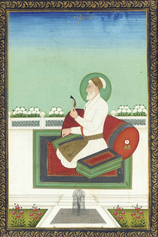 A later portrait of Prince Azam Shah, Aurangzeb's third son, who did not outlive his father (downloaded Aug. 2004) "A Mughal Prince: Muhammad Azam Shah (d. 1707). India, Deccan, Hyderabad, 1875-1900. Depicting the nimbated and turbaned prince on a carpet backed by a pillow, on a terrace with fountain below, inscribed above in nastaliq Muhammad Azam Shah; with blue borders painted with gold vines; mounted in an album page; framed. Image: 9¼ x 6 1/8 in. (23.5 x 15.5 cm.)."